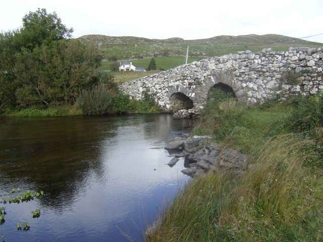 The Quiet Man Bridge - classic view. This is the view of the bridge in a scene from John Ford's film The Quiet Man, starring John Wayne. See 582400.